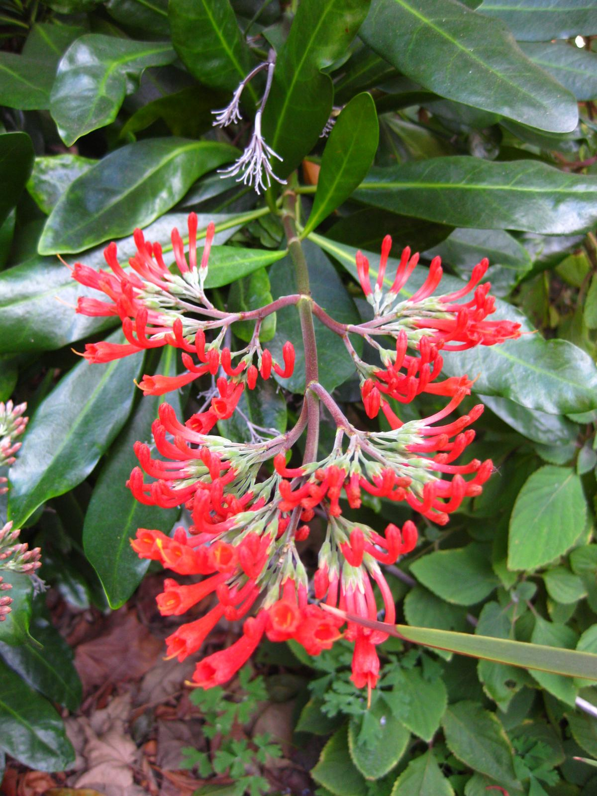 This photo is from and is available under CC-BY-SA 3.0 license. If you use it, please include attribution to , with a link if the media allows it. If the name is missing, click here. This work is free and may be used by anyone for any purpose. If you wish to use this content, you do not need to request permission as long as you follow any licensing requirements mentioned on this page.